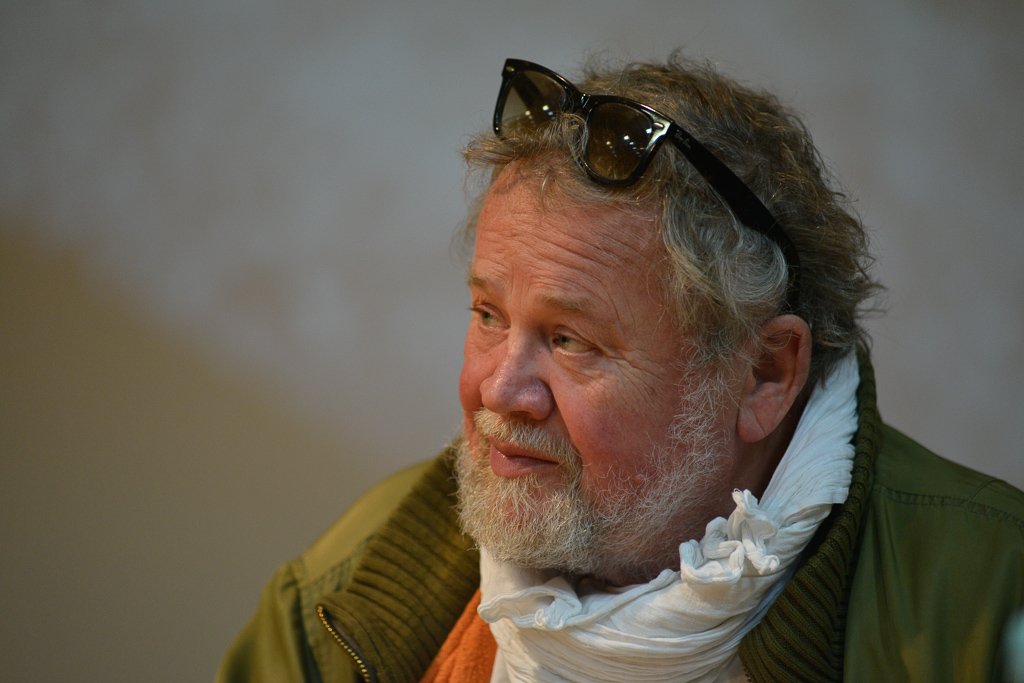 Antonín Kratochvíl - Czech-born American photojournalist, photographer during FotoArtFestival in Bielsko-Biala, Poland, 2017